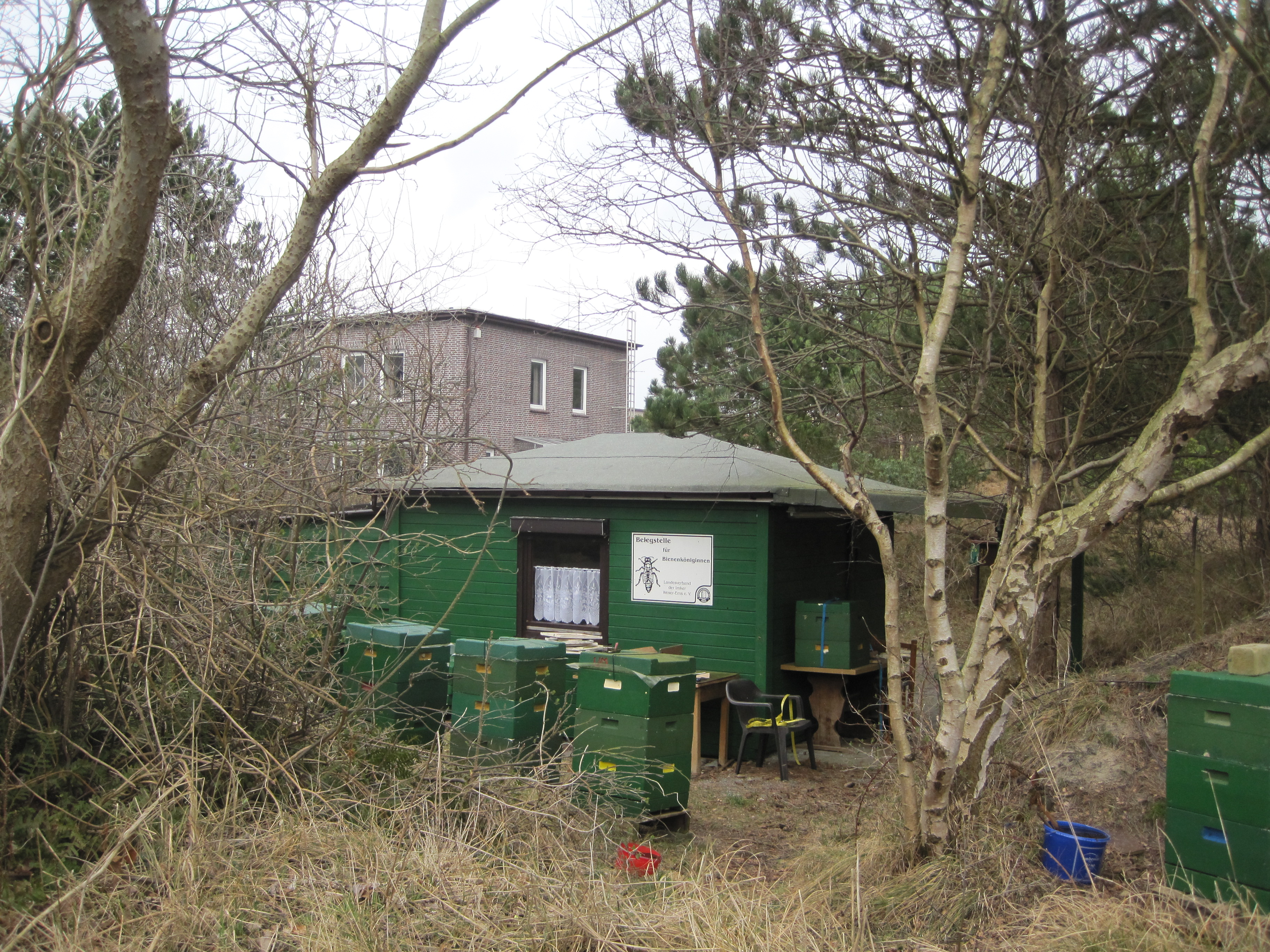 Carnica mating station, Wangerooge, Germany check usage